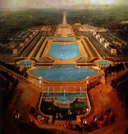 Chateau de Marly in Marly-le-Roi, France